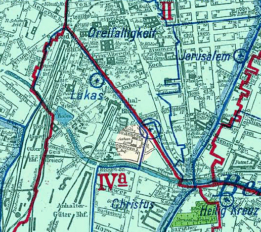 Position plan of the "Askanisches Gymnasium", Berlin 1925